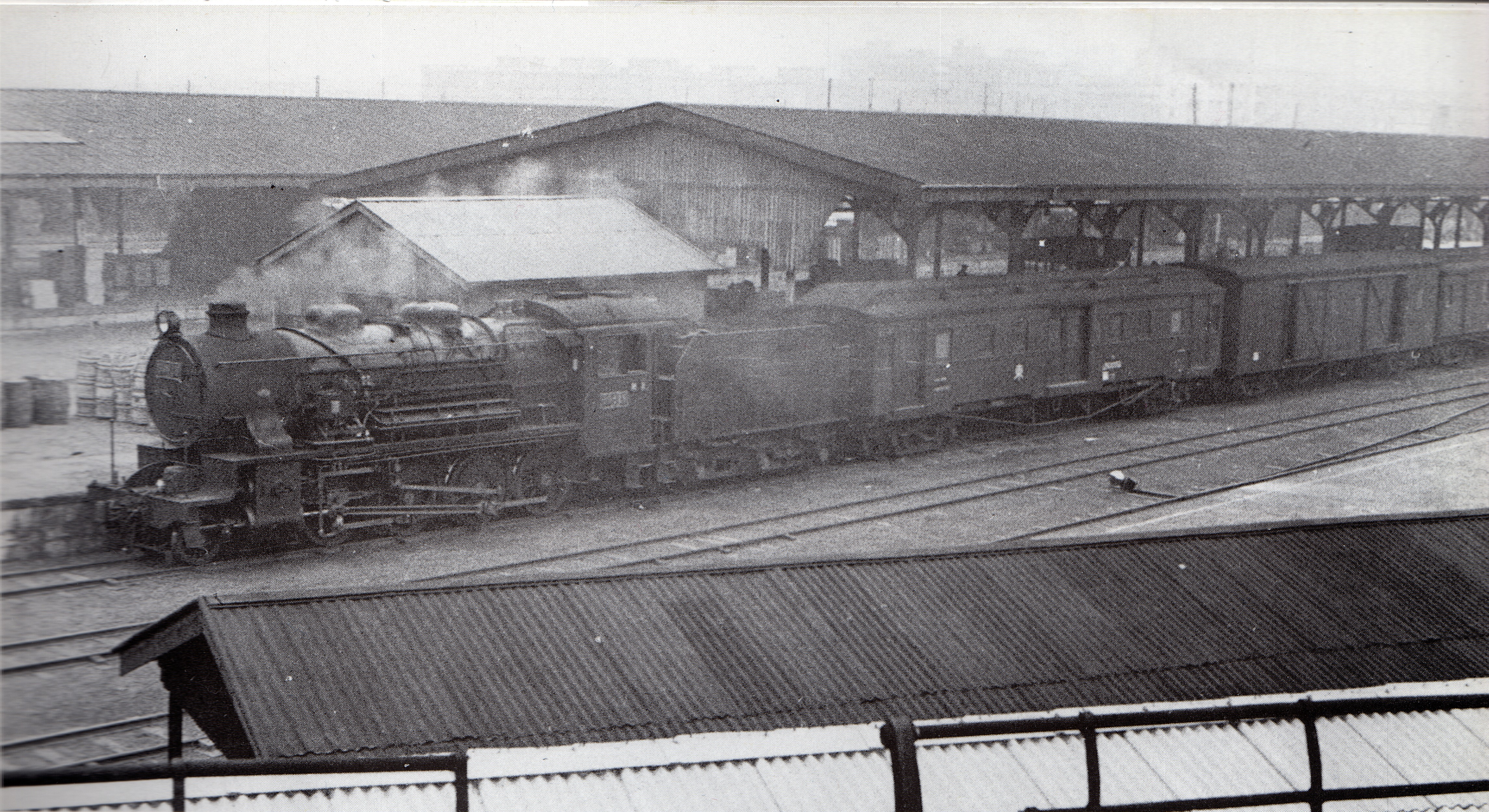 A Japanese Government Railway Class 9600 steam locomotive at Higashi-Yokohama Station in Yokohama, Kanagawa, Japan